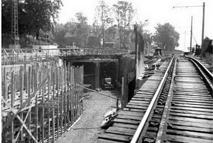 Construction of Volvat Station in Oslo, Norway